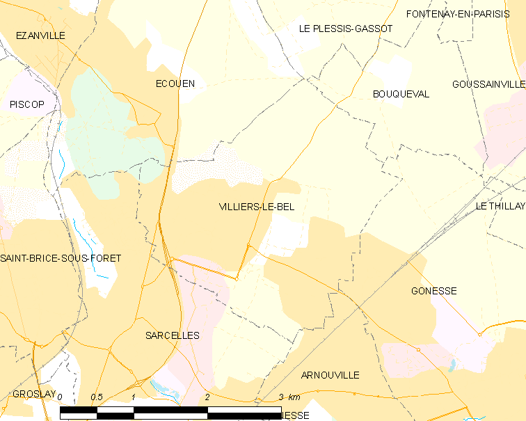 Map of French municipality Villiers-le-Bel